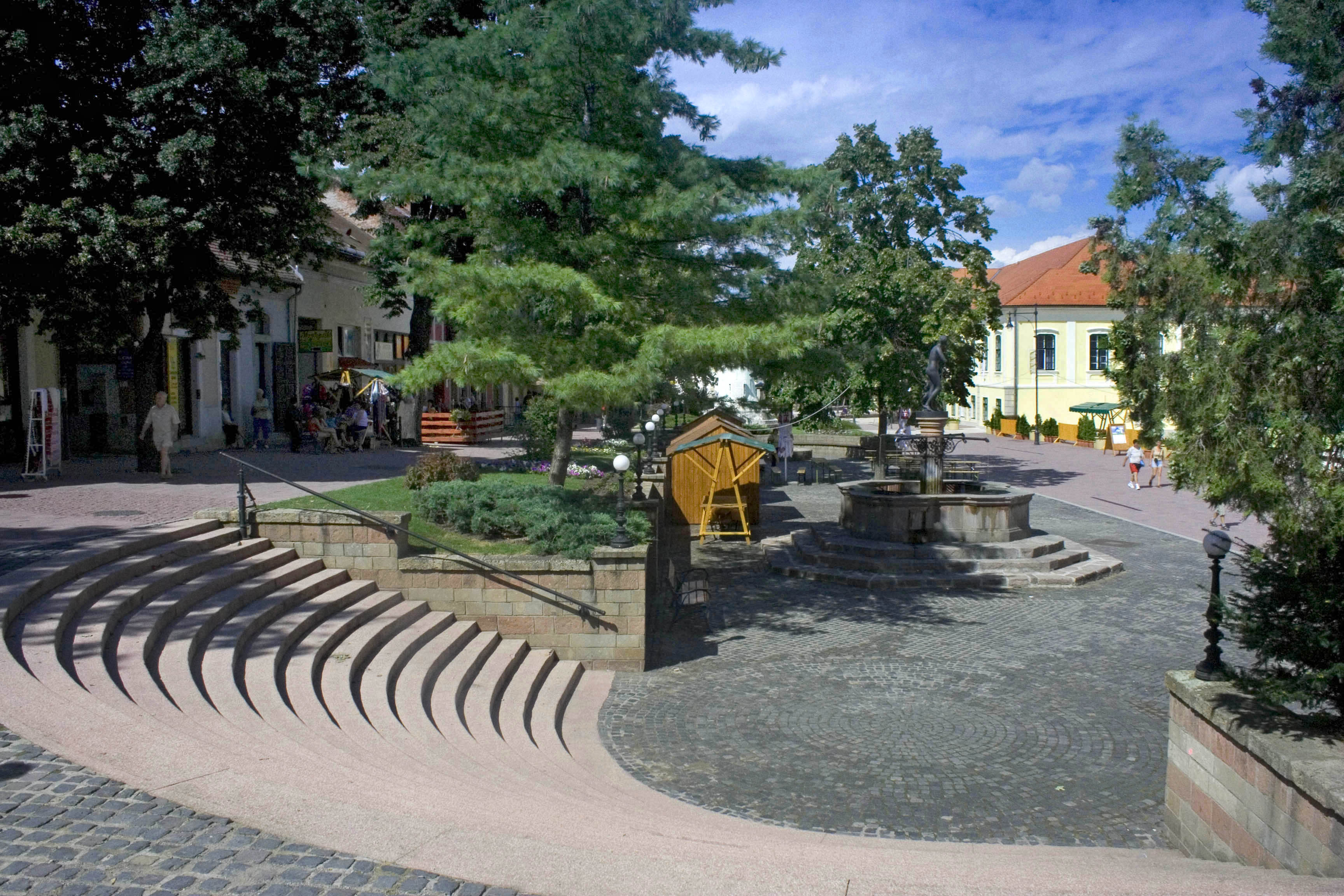 Hungary Sátoraljaújhely - The renovated Széchenyi Square with the Comitatus Fountain